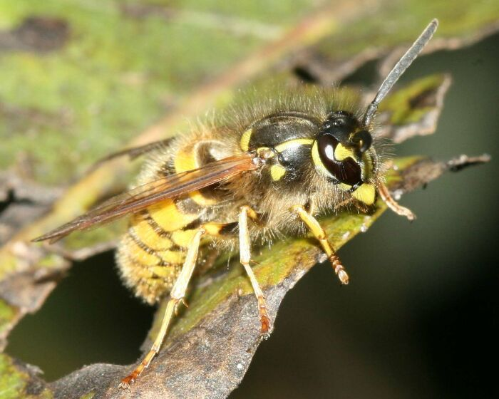 Description: Worker of wasp, Vespula vulgaris